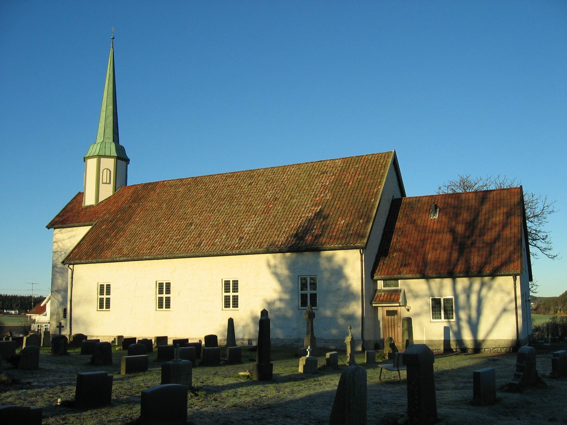 Torsnes Church, Østfold, Norway Picture taken by me, PerPlex